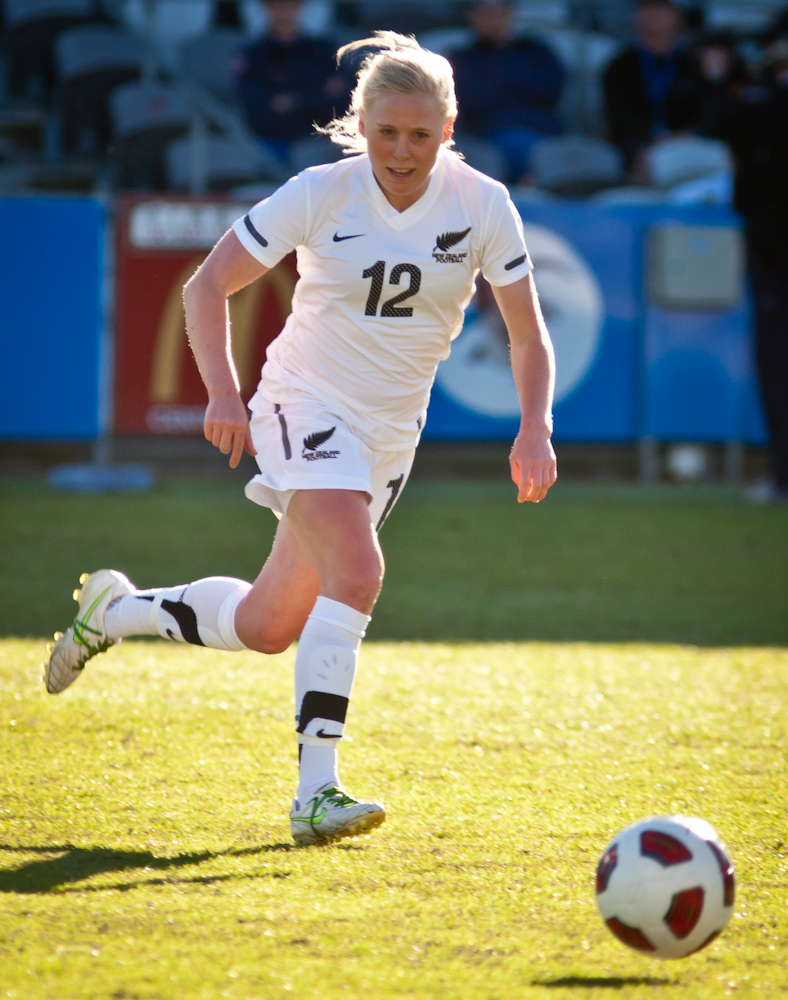 Betsy Hassett playing for the New Zealand women's national football team against Australia.